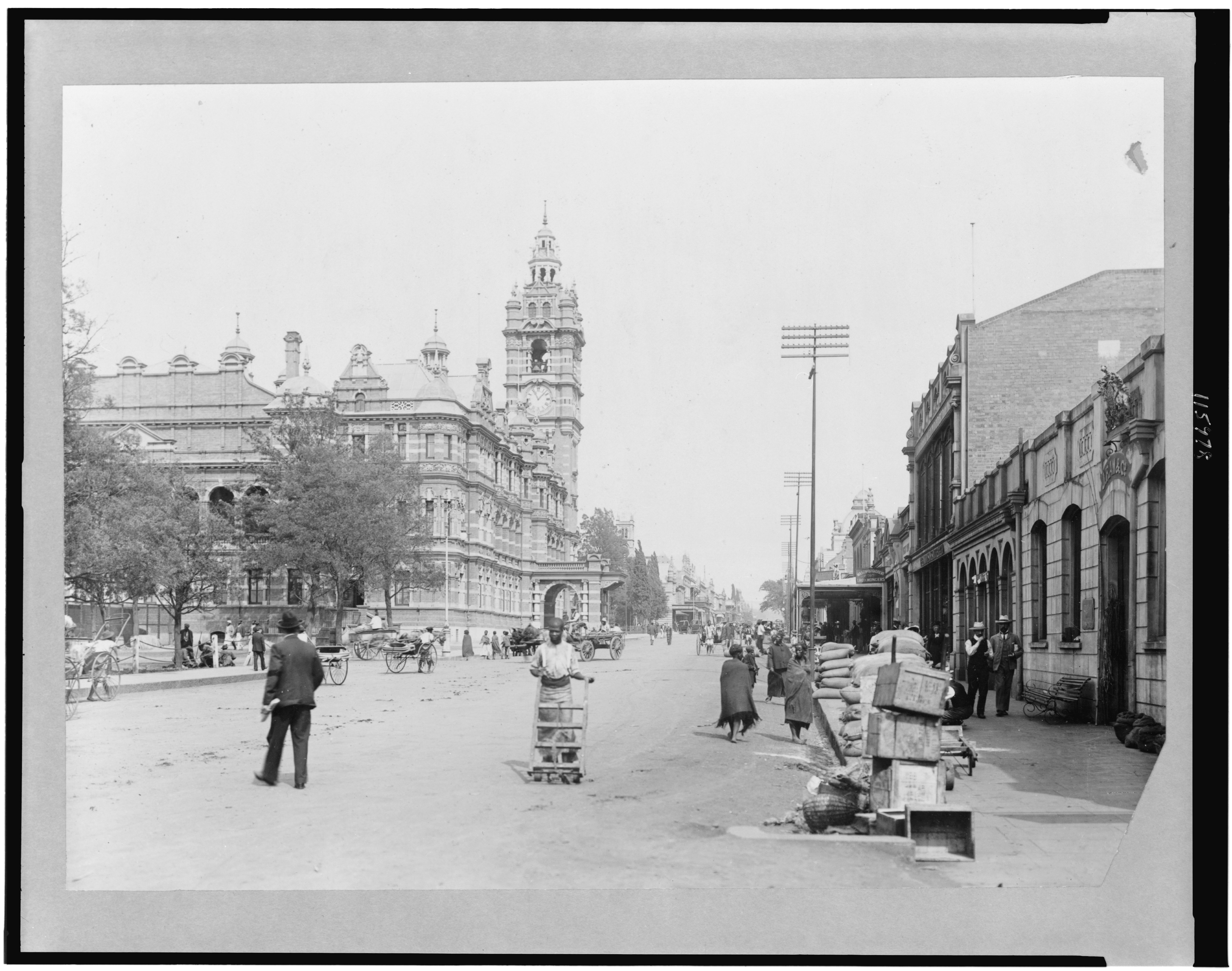 Title: Church St. and town hall--Maritzburg, South Africa Physical description: 1 photographic print. Notes: Frank and Frances Carpenter Collection (Library of Congress)